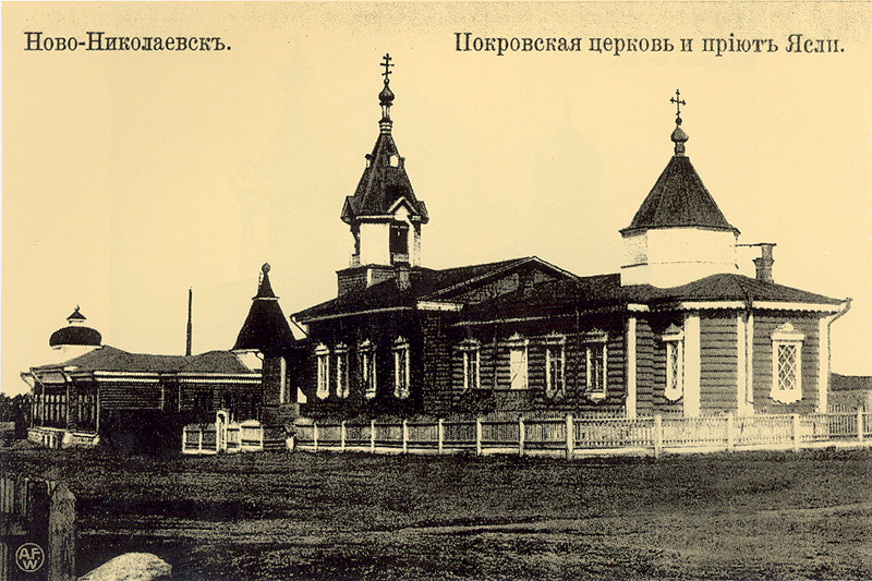 Pokrov church in Novosibirsk